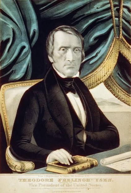 Theodore Frelinghuysen: nominated for Vice President of the United States.